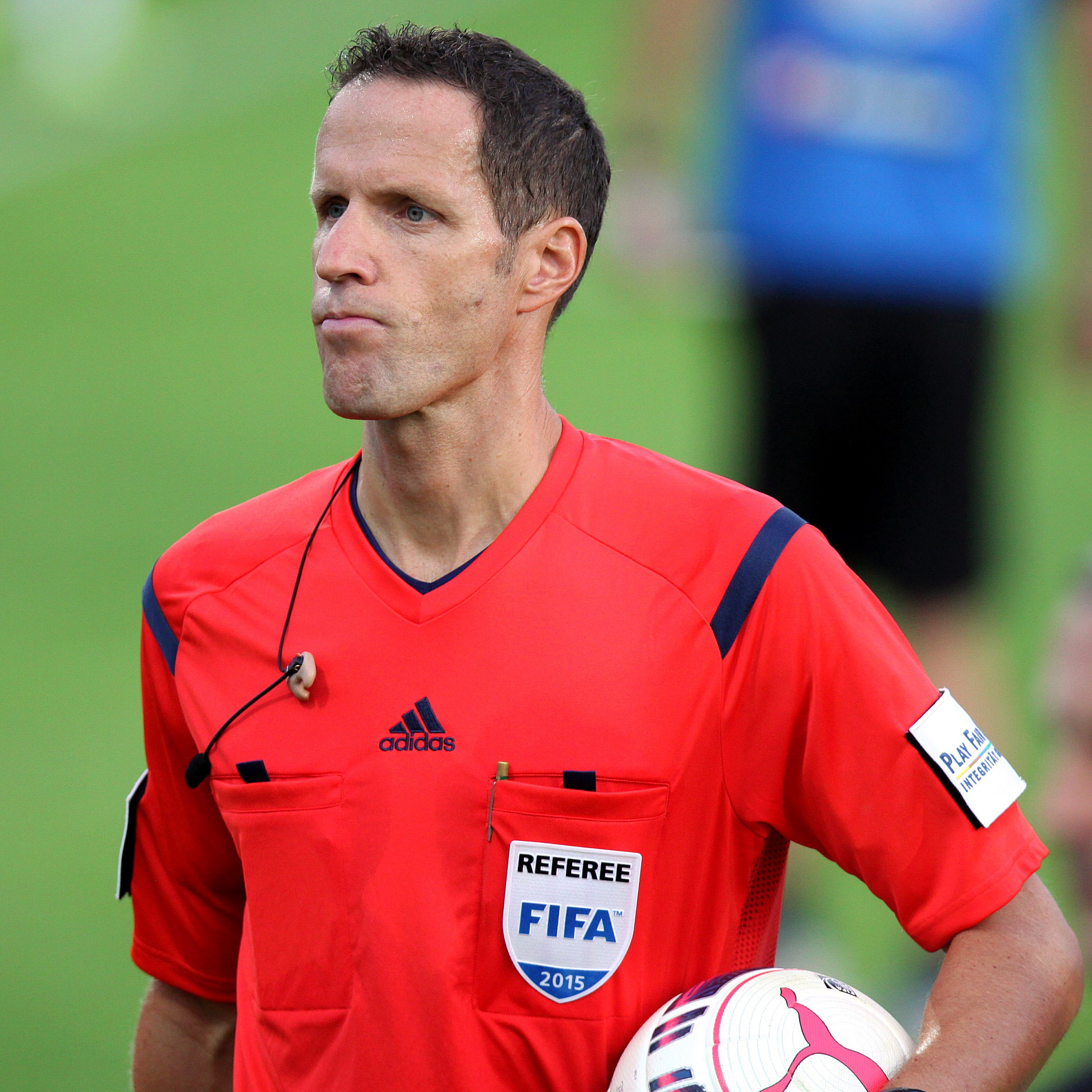 Match of the Austrian Football Bundesliga – SV Mattersburg (green shirts) vs. SK Sturm Graz (white shirts) on 2015-09-13 in Pappelstadion, Mattersburg – The photo shows referee Robert Schörgenhofer